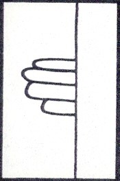 Hand of Napoleon in his jacket